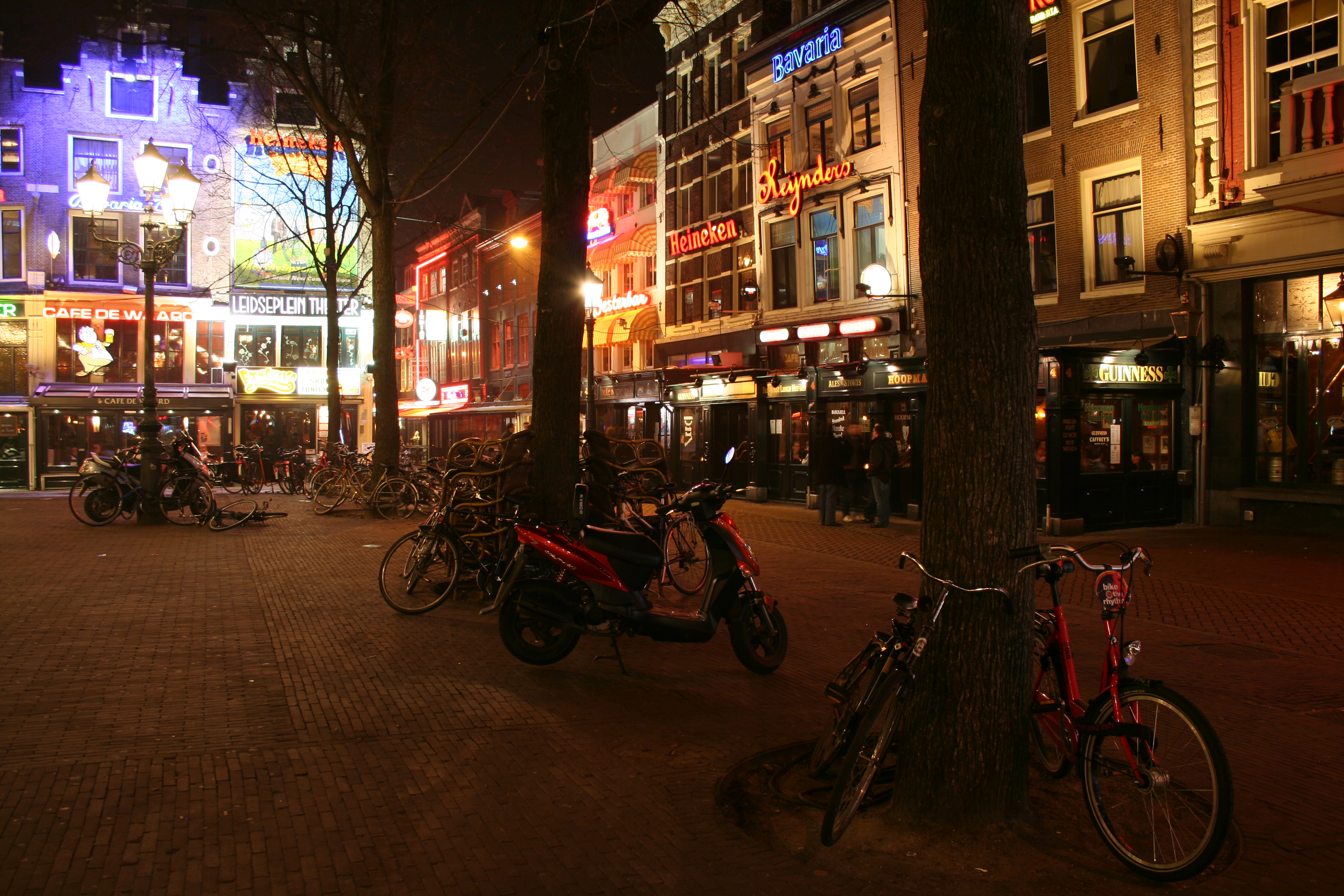 A photograph taken of the Leidseplein, which is a centre of nightlife in Amsterdam.